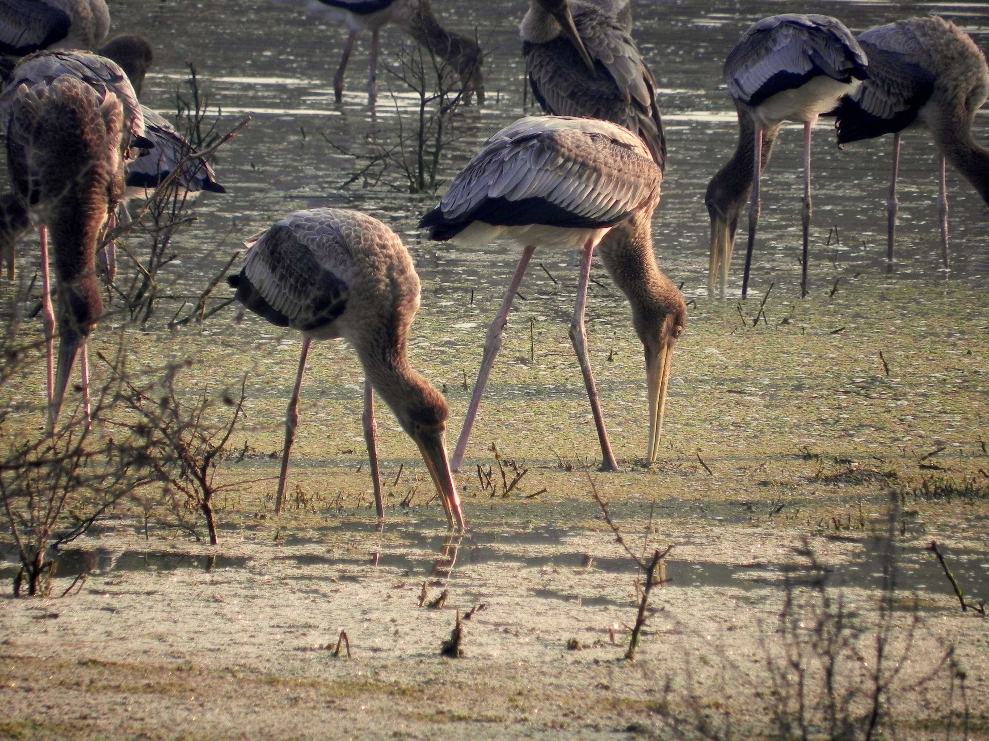 This photograph was taken during my recent visit to Keoladeo National Park in Bharatpur, Rajasthan. The picture depicts family of painted storks in the early morning in the wetlands of Keoladeo. This national park is also a World Heritage Site under criteria ix of the UNESCO Conventions. The sanctuary is home to over 350 species of native and migratory birds as well as many species of reptiles and mammals.